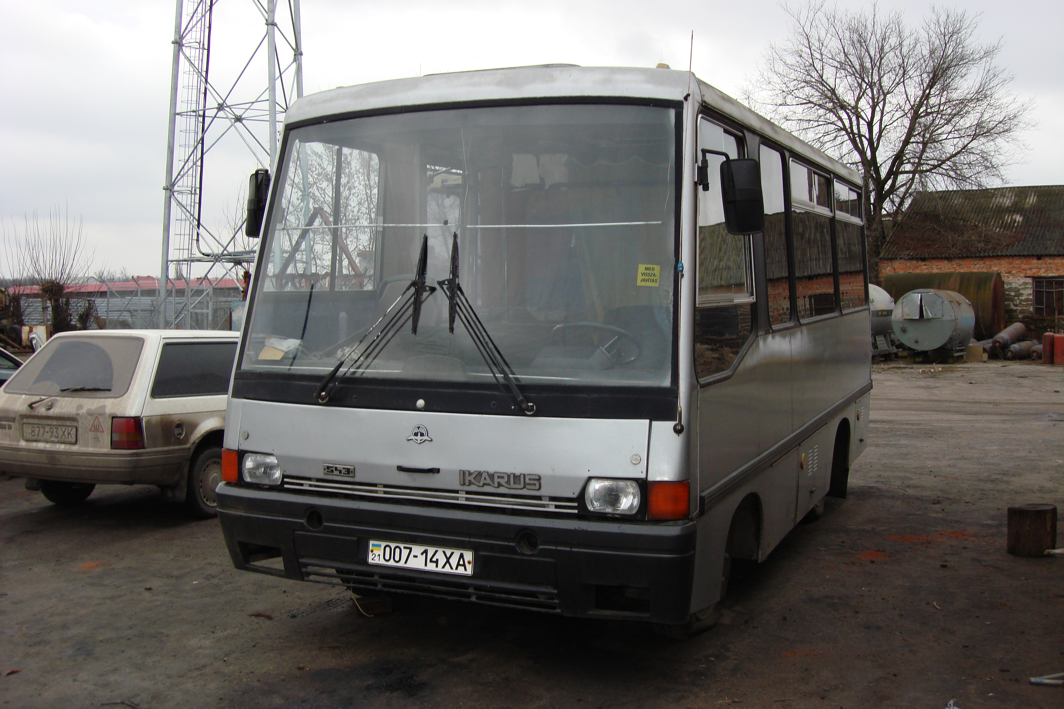 Ikarus 543.26, prod. year 1989, midi bus with 20 passenger seats, was prodused on a platform of Сzech truck "AVIA A-31" with 4 cylinder diesel engine, displacement 3596 см³ (83 HP).